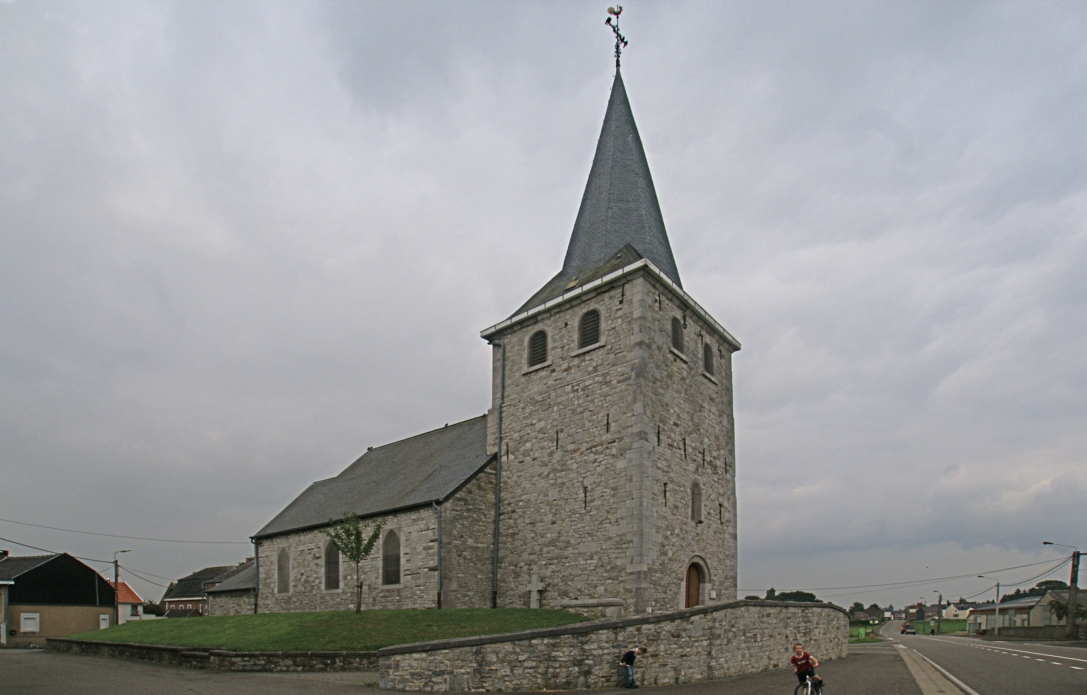 Villers-le-Bouillet (Belgium): Saint Martin's Church